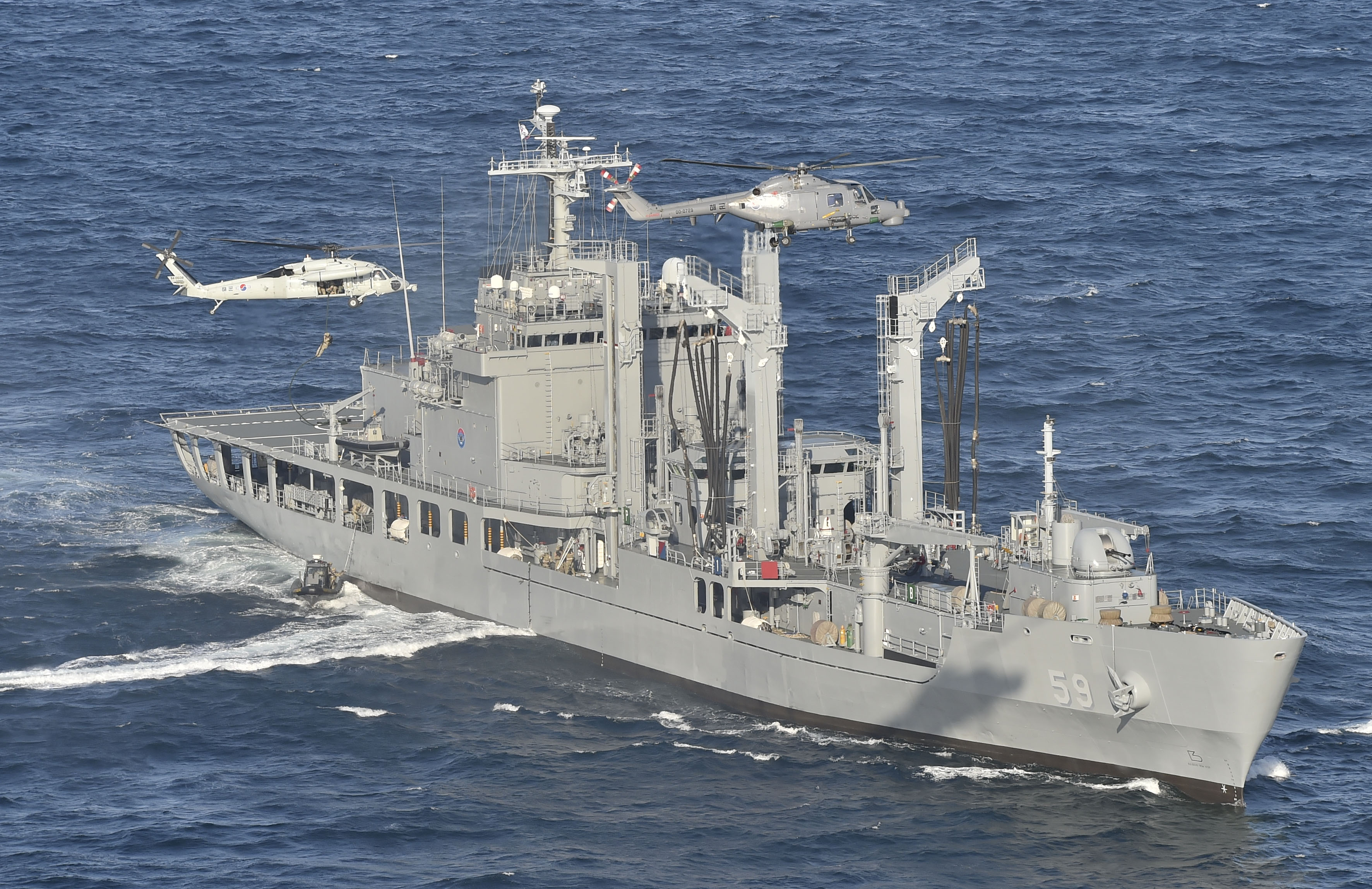 ROKS Hwacheon (AOE-59) in counter-terror training during the Republic of Korea Navy's Fleet Review in 2015.